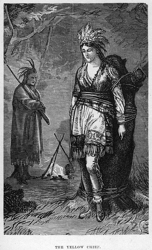 Illustration from The Yellow Chief: A Romance of the Rocky Mountains